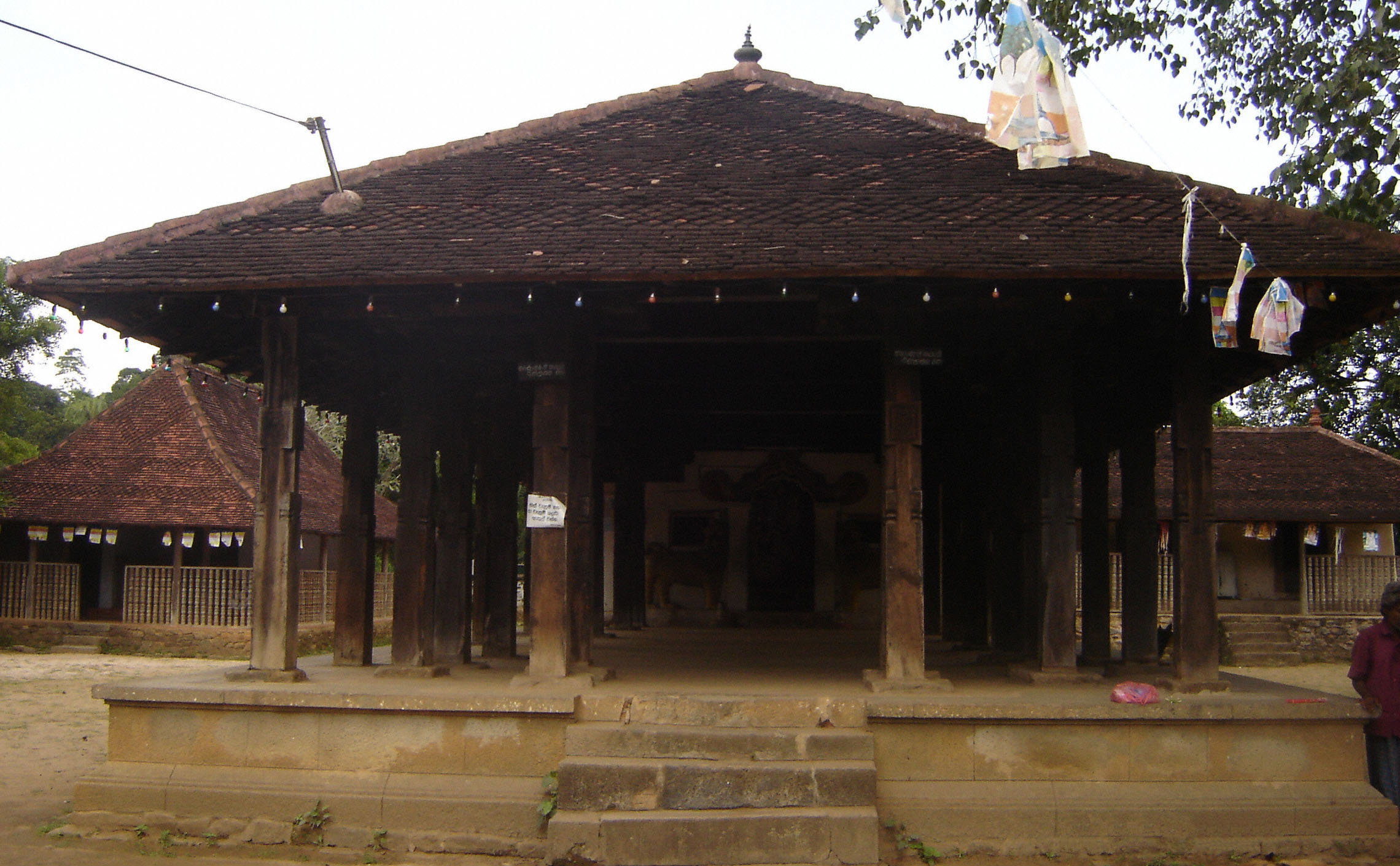 A view of Embekka Devalaya from the front entrance. Shot by Dhammika Siripala on 03 July 2008.